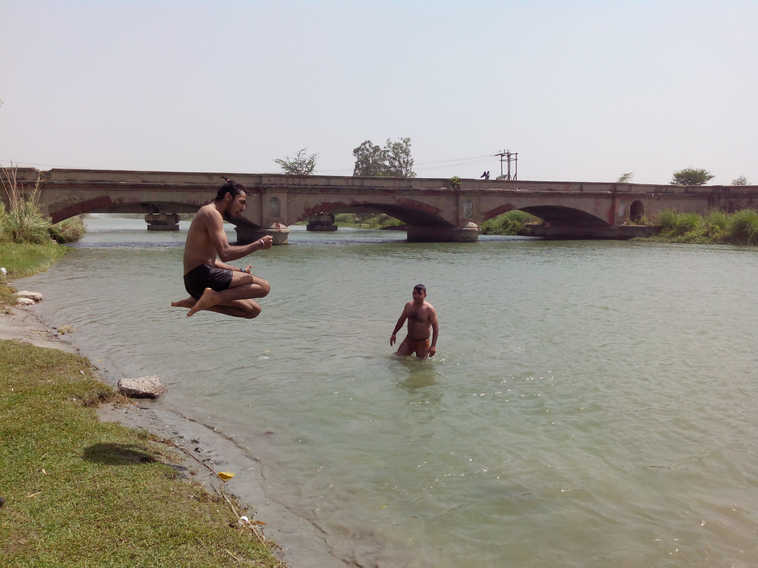 Escaping from summer a boy jumping into a canal in Uttar Pradesh.